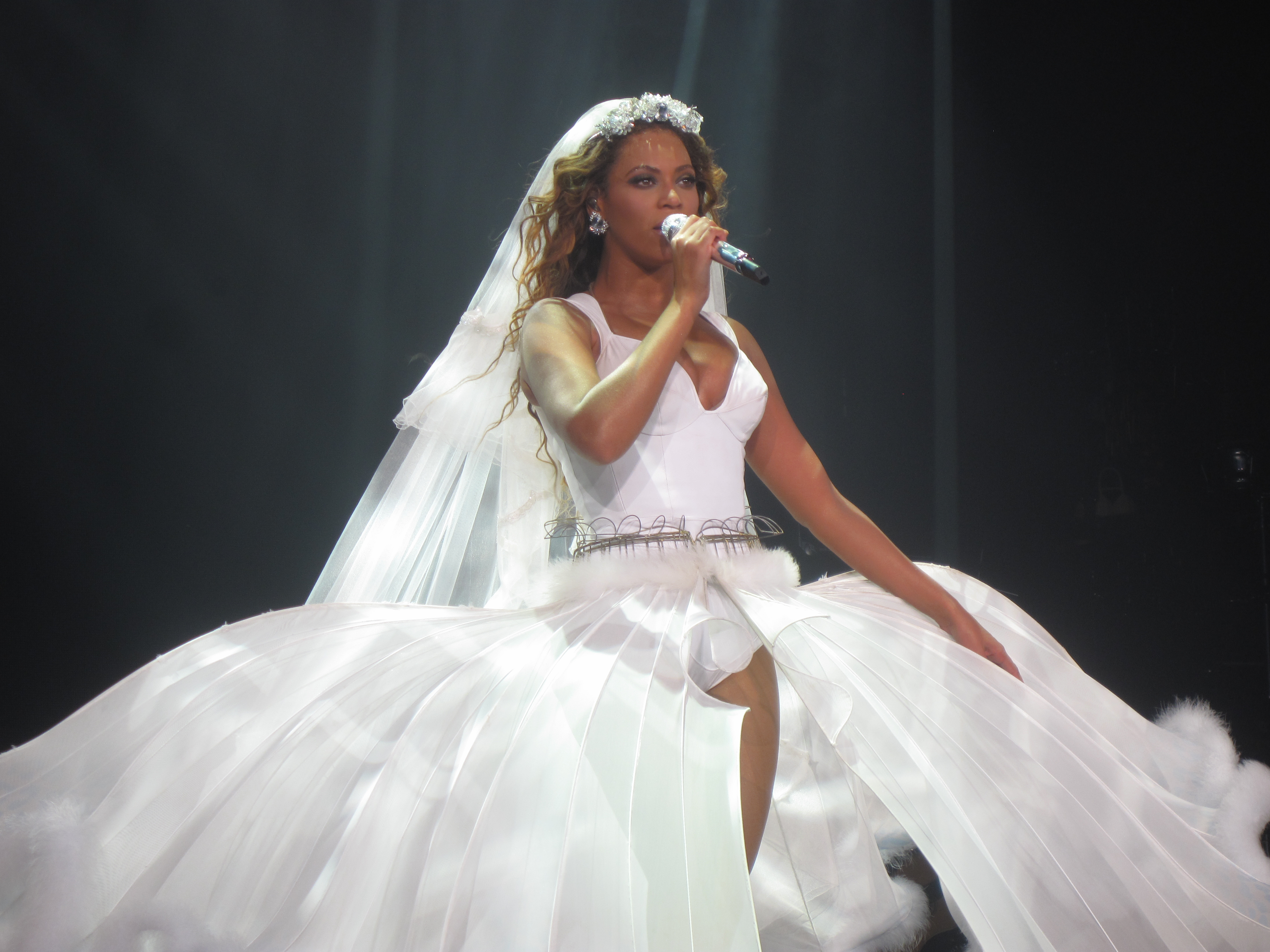 Beyoncé performing on The O2 in London.